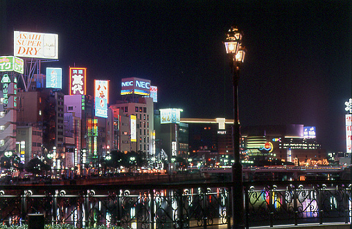 Photo by City of Fukuoka